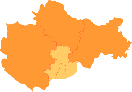 Map of Bengbu in Anhui province, empty